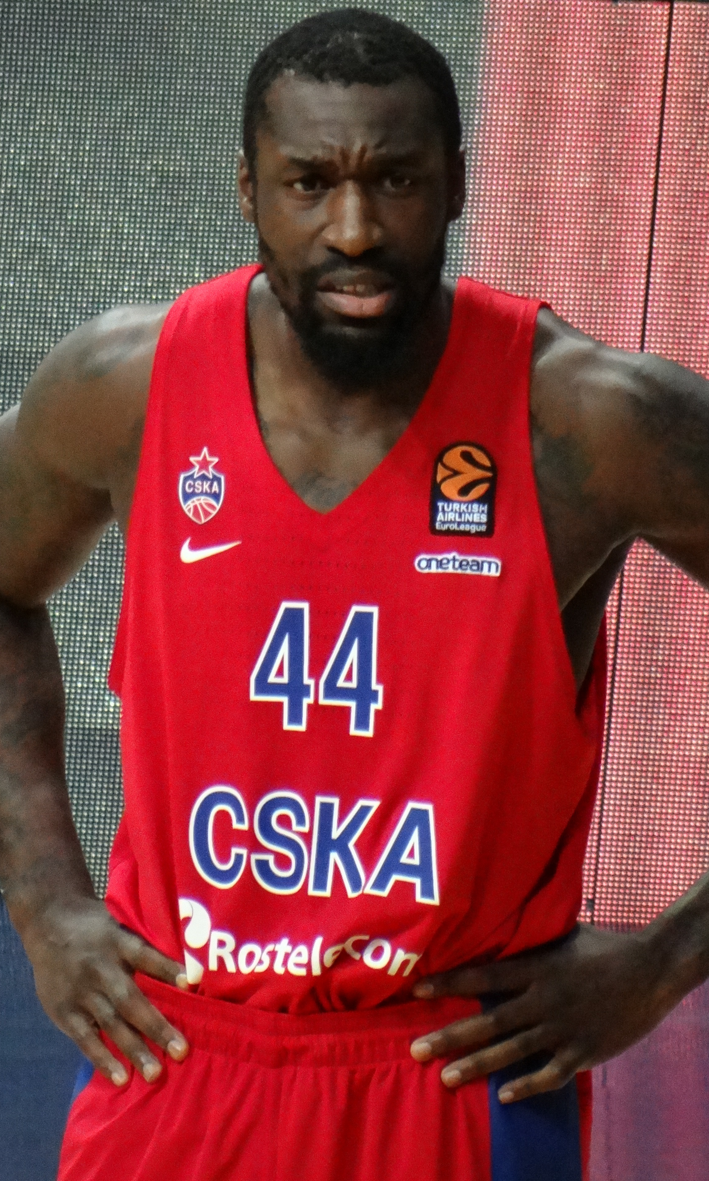 Othello Hunter 44 PBC CSKA Moscow EuroLeague 20180316